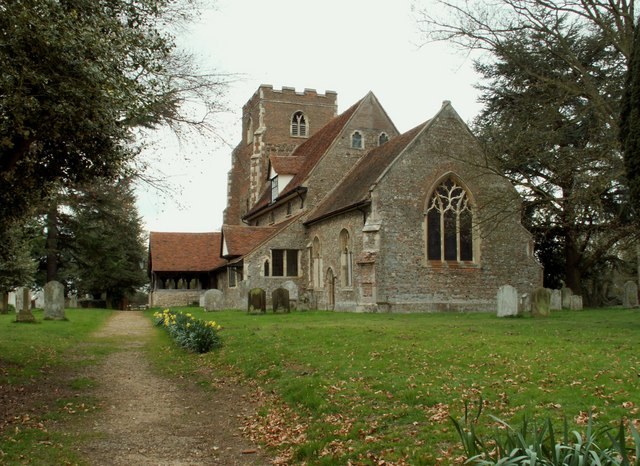 St Peter's parish church, Boxted, Essex, seen from the east